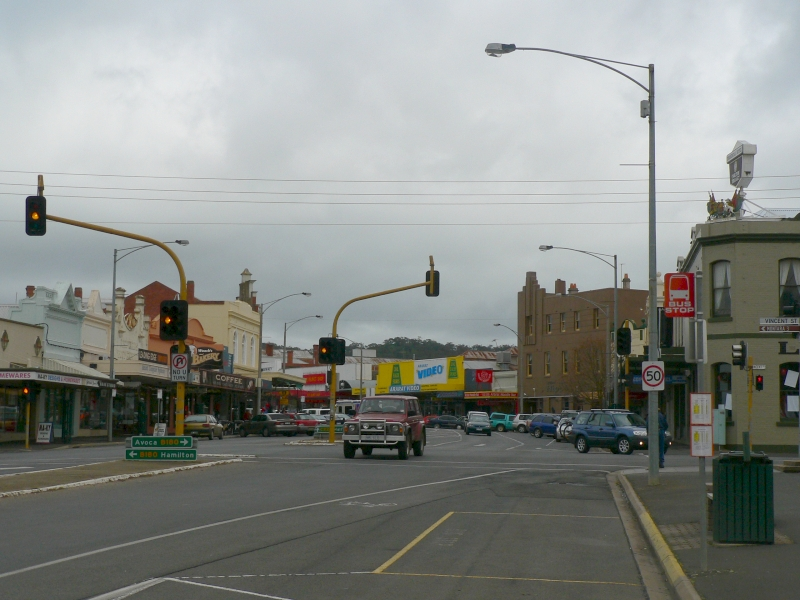 The main street in Ararat